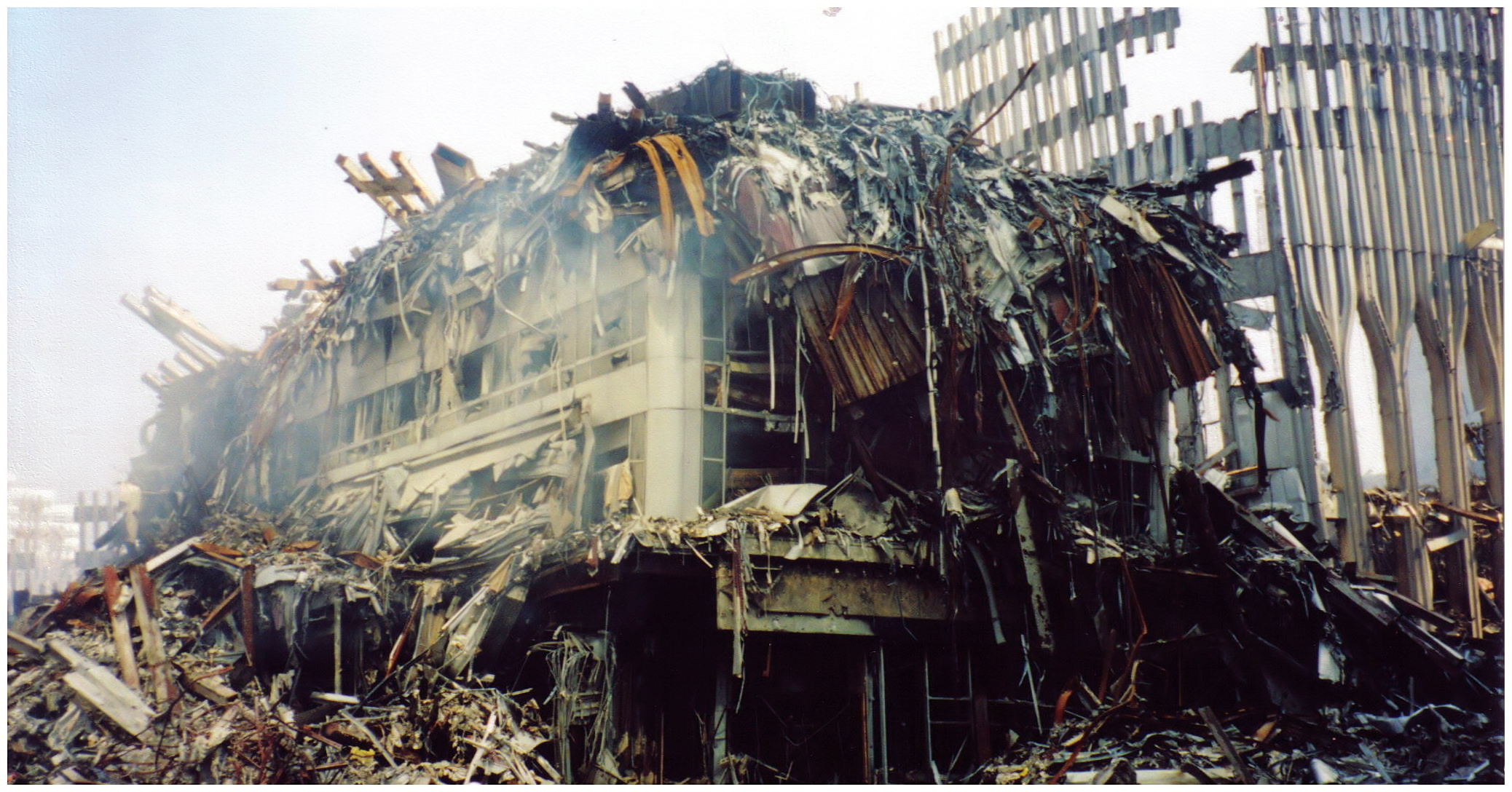 Photo of World Trade Center 3 with remains of WTC1 (left background) and WTC2 (right foreground) visible. Taken by me in September, 2001.